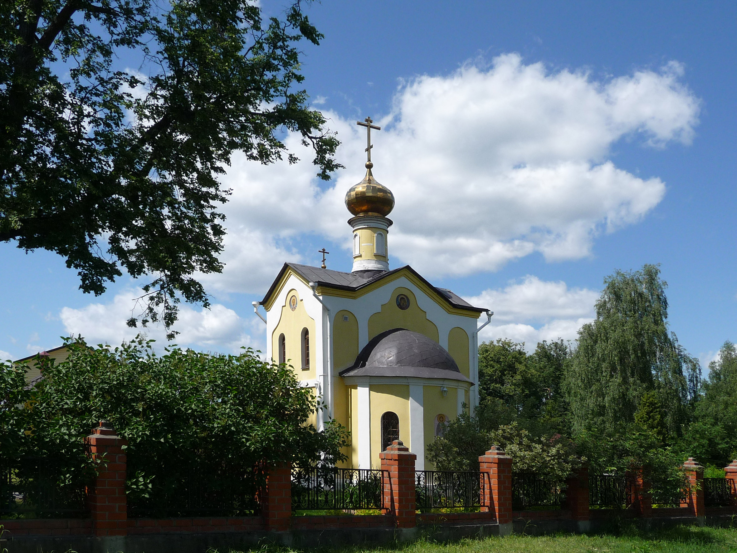 Saint Anatolius of Nicomedia Church (2008) in the village of Karmolino, Shchyolkovsky District, Moscow oblast Russia.